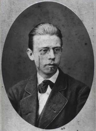 Johan Gudmann Rohde (1856-1935), Danish painter